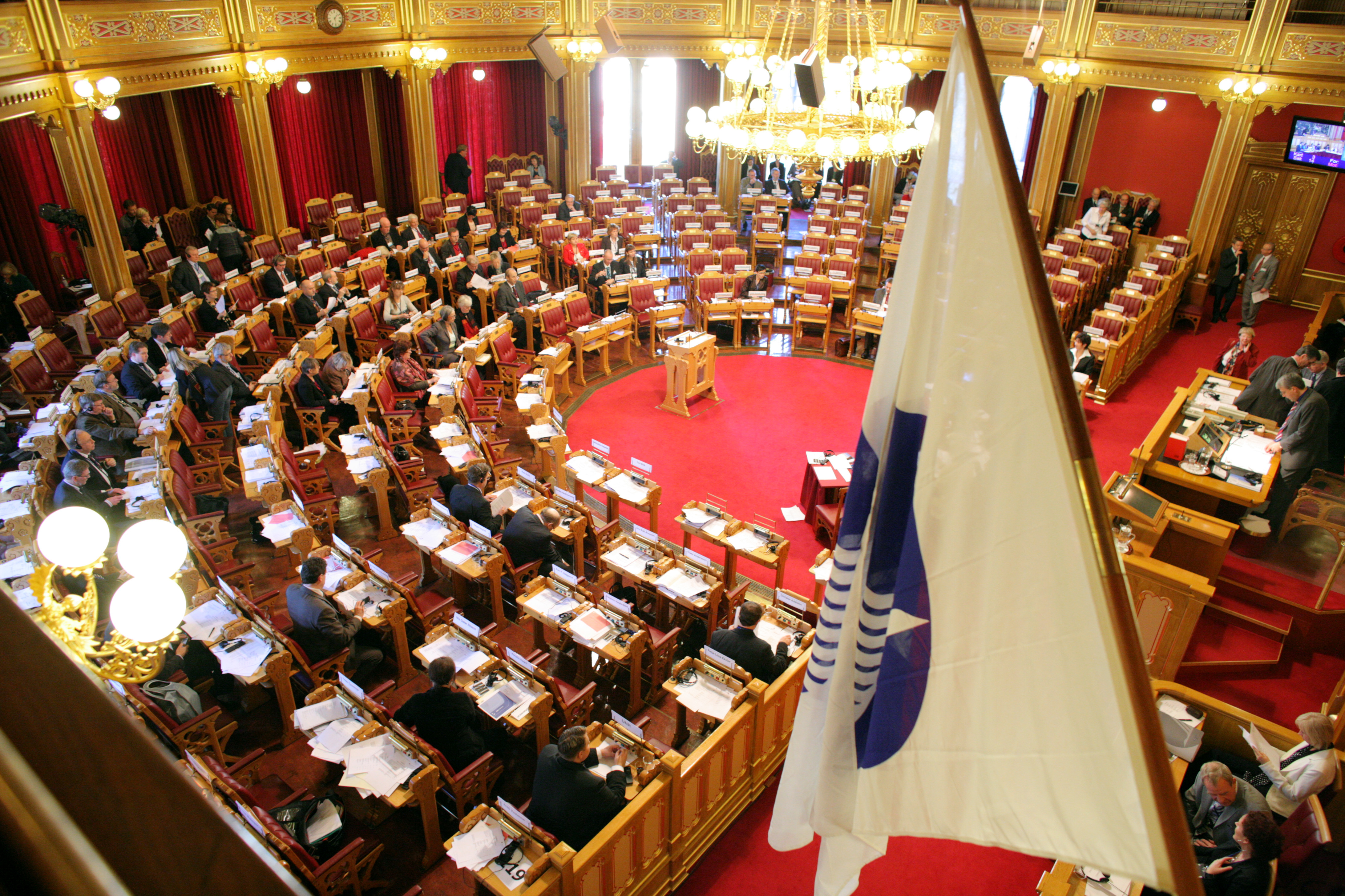 Keywords: Parliament, Norway